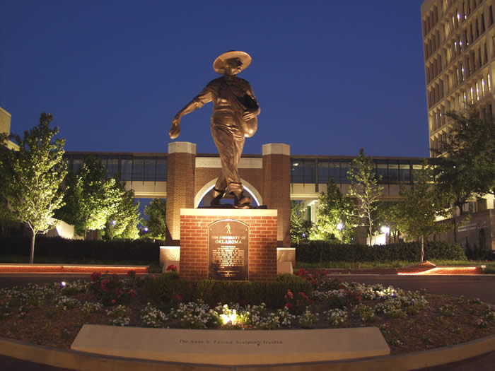 Sower statue on the OUHSC campus at night